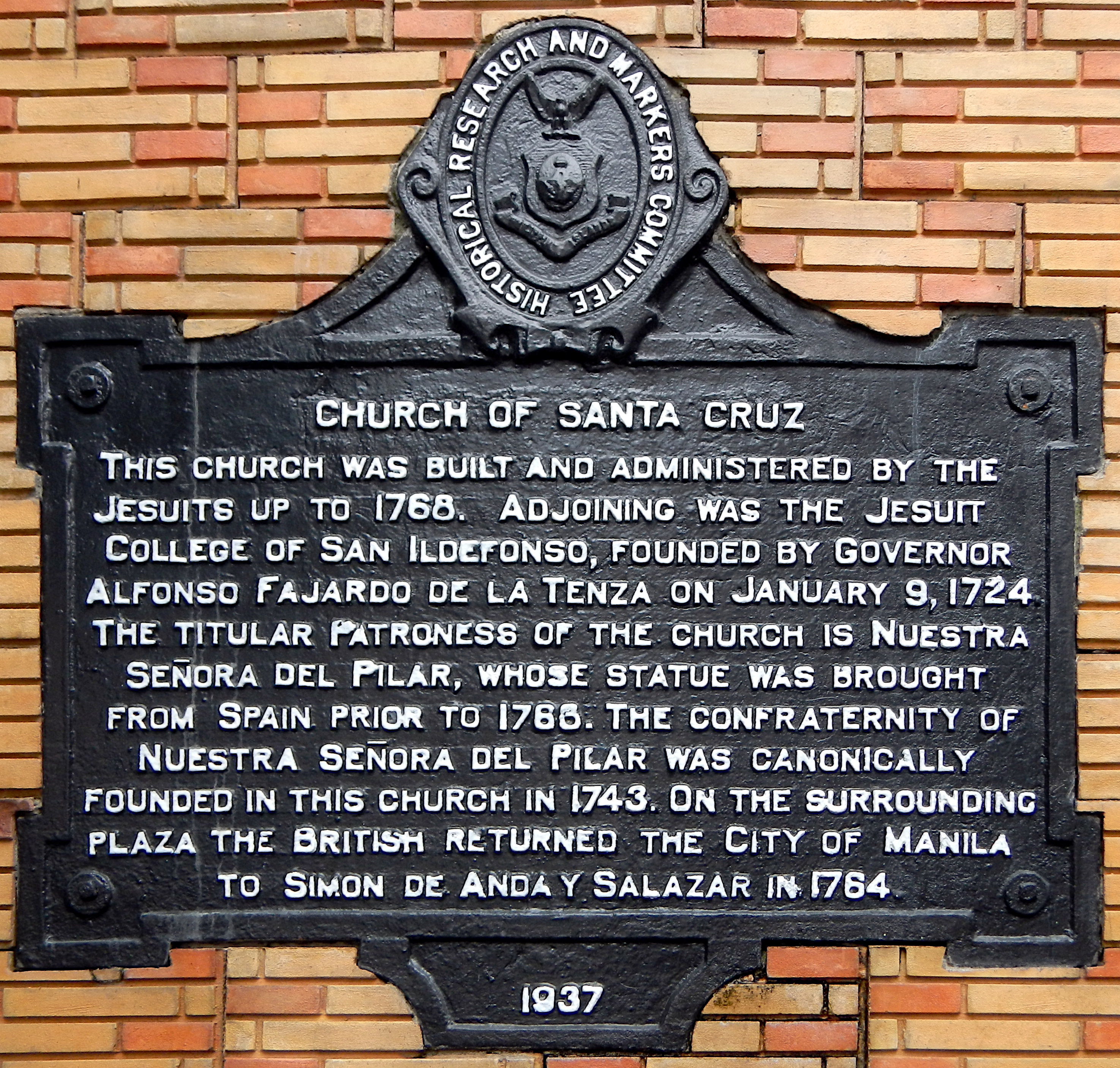 Historical marker installed by the Historical Research and Markers Committee (now the National Historical Commission of the Philippines) commemorating Santa Cruz Church in Manila.